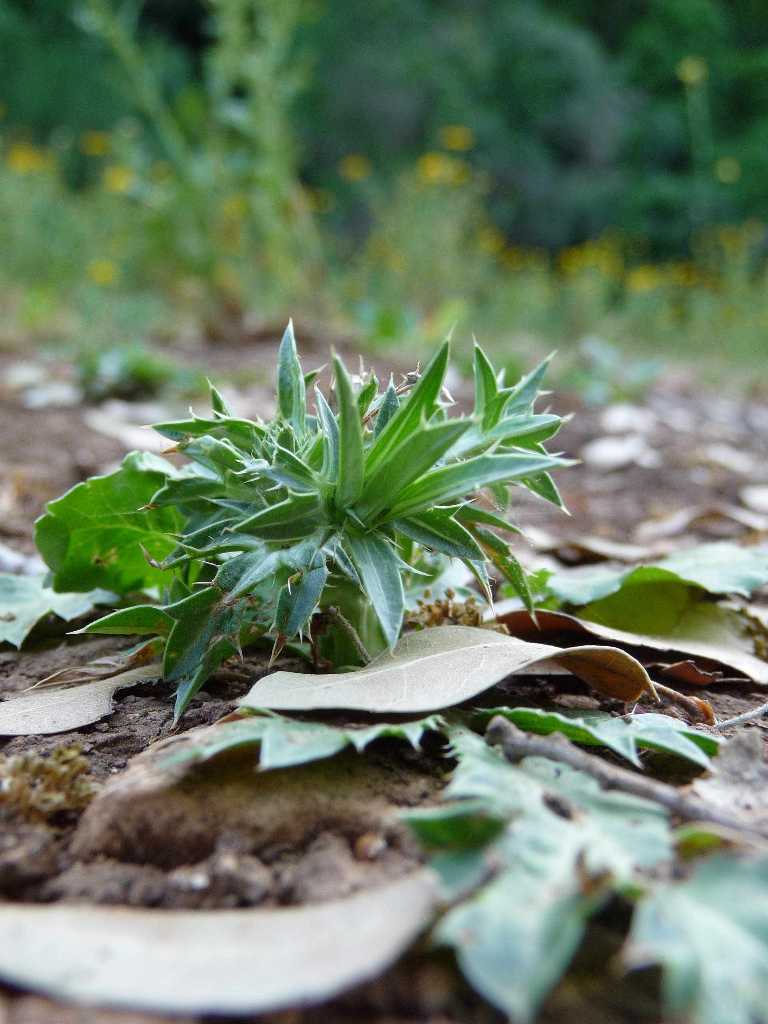 Beit Oren is a kibbutz in northern Israel. It falls under the jurisdiction of Hof HaCarmel Regional Council.